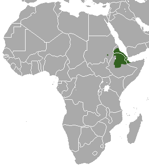 Abyssinian Genet (Genetta abyssinica) range, along with national borders